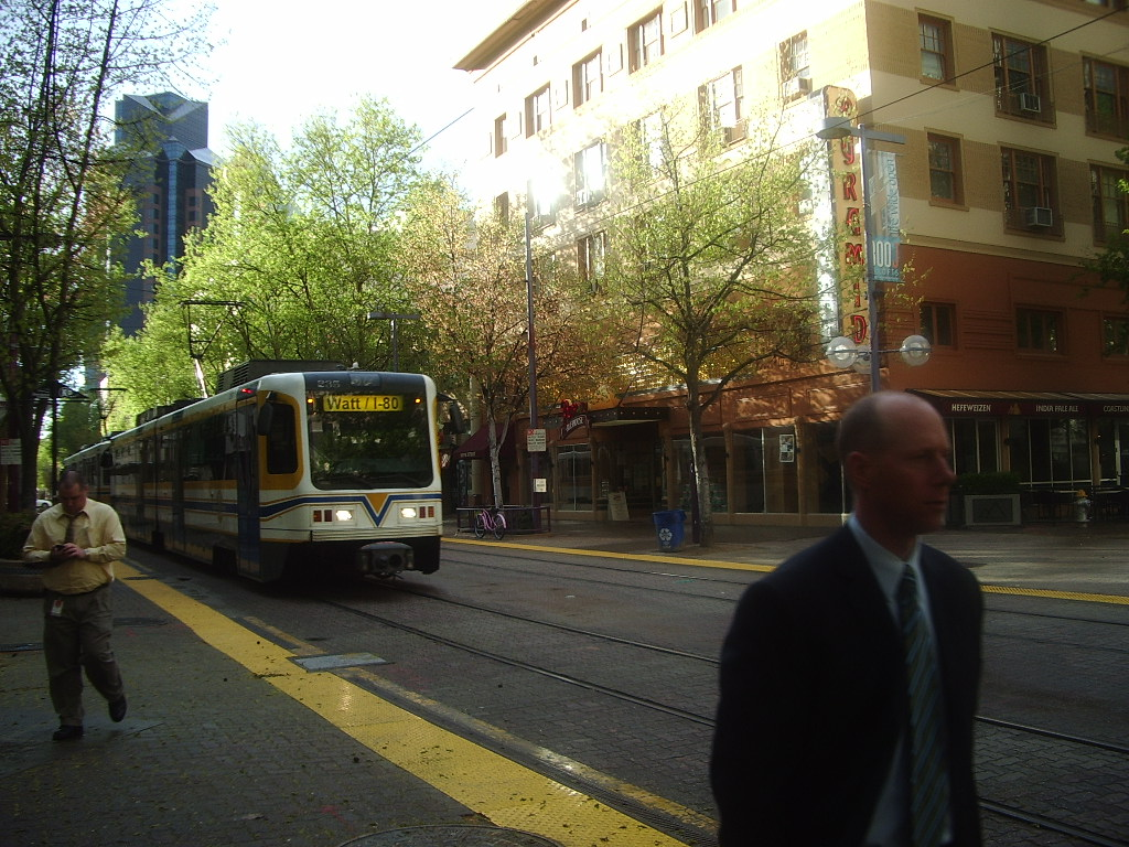 Cathedral Square, Sacramento. March 26, 2007